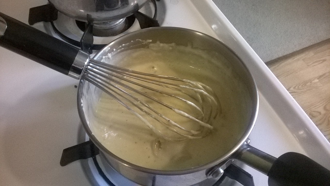 Mushroom béchamel sauce